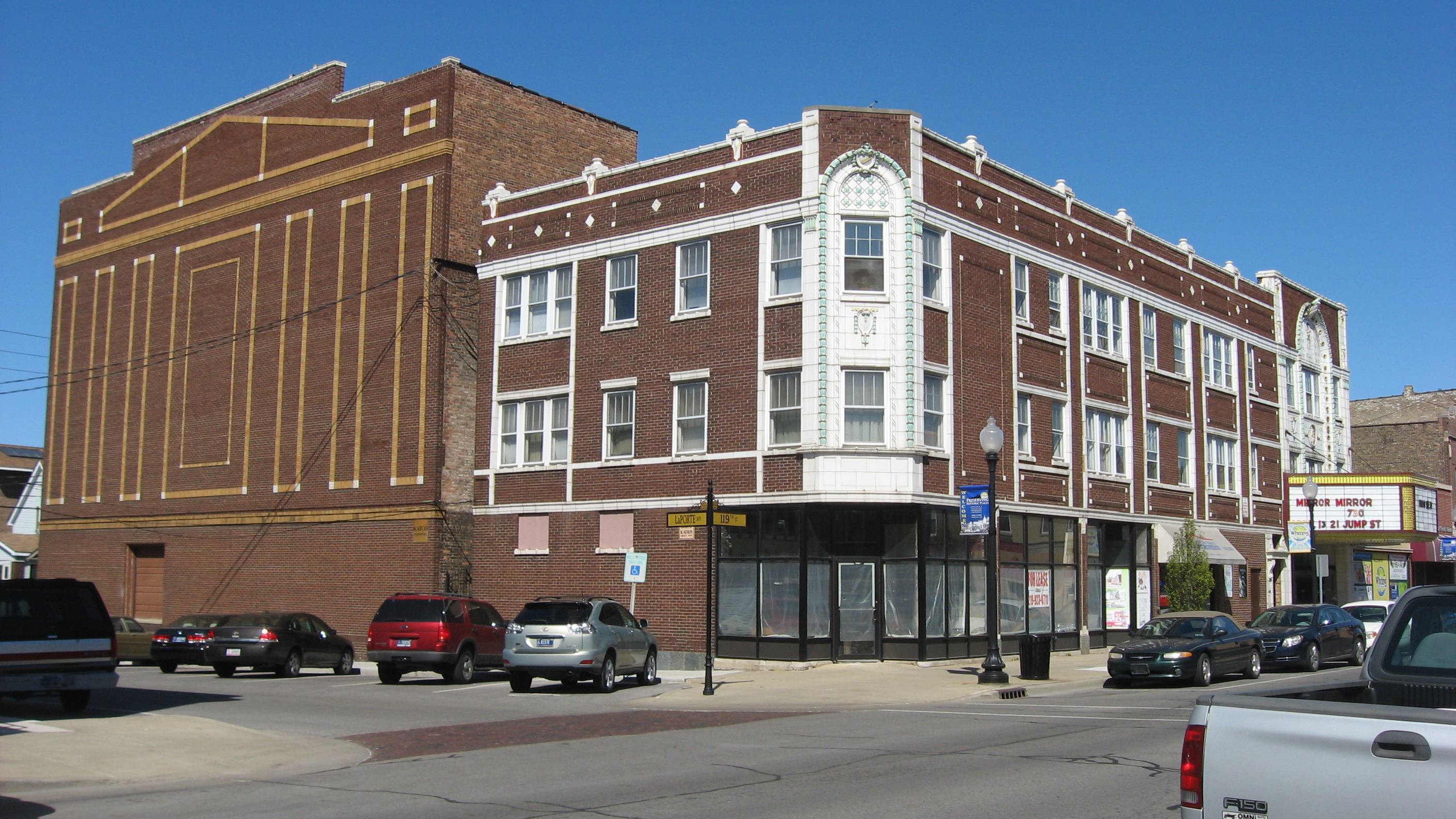 Front and western side of the Hoosier Theater Building, located at 1329-1335 119th Street in Whiting, Indiana, United States. Built in 1924, it is listed on the National Register of Historic Places.